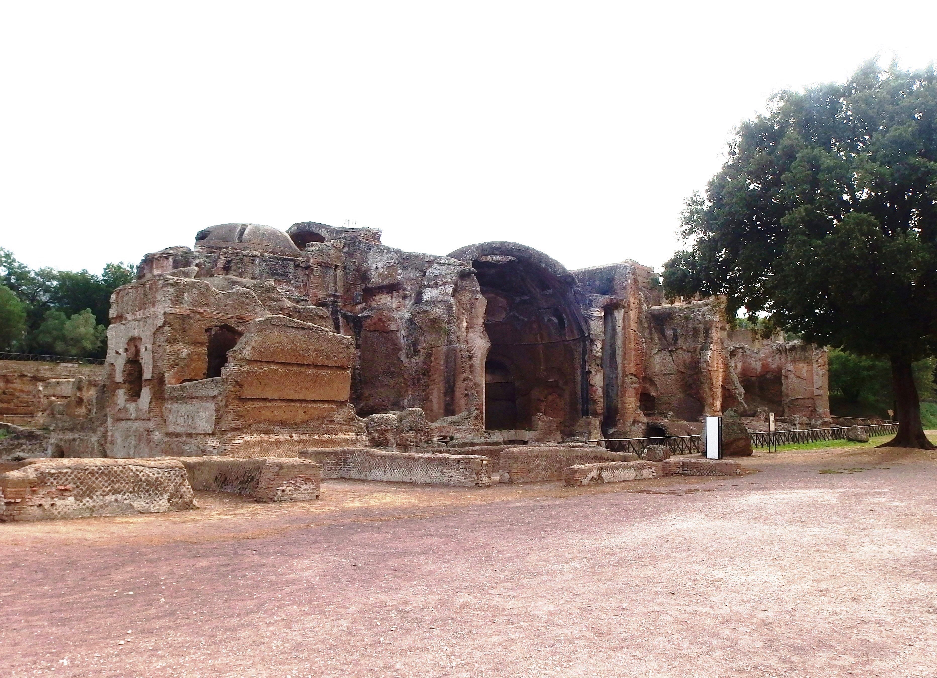 Tivoli, Italy. Hadrian's Villa, Grand Thermae.